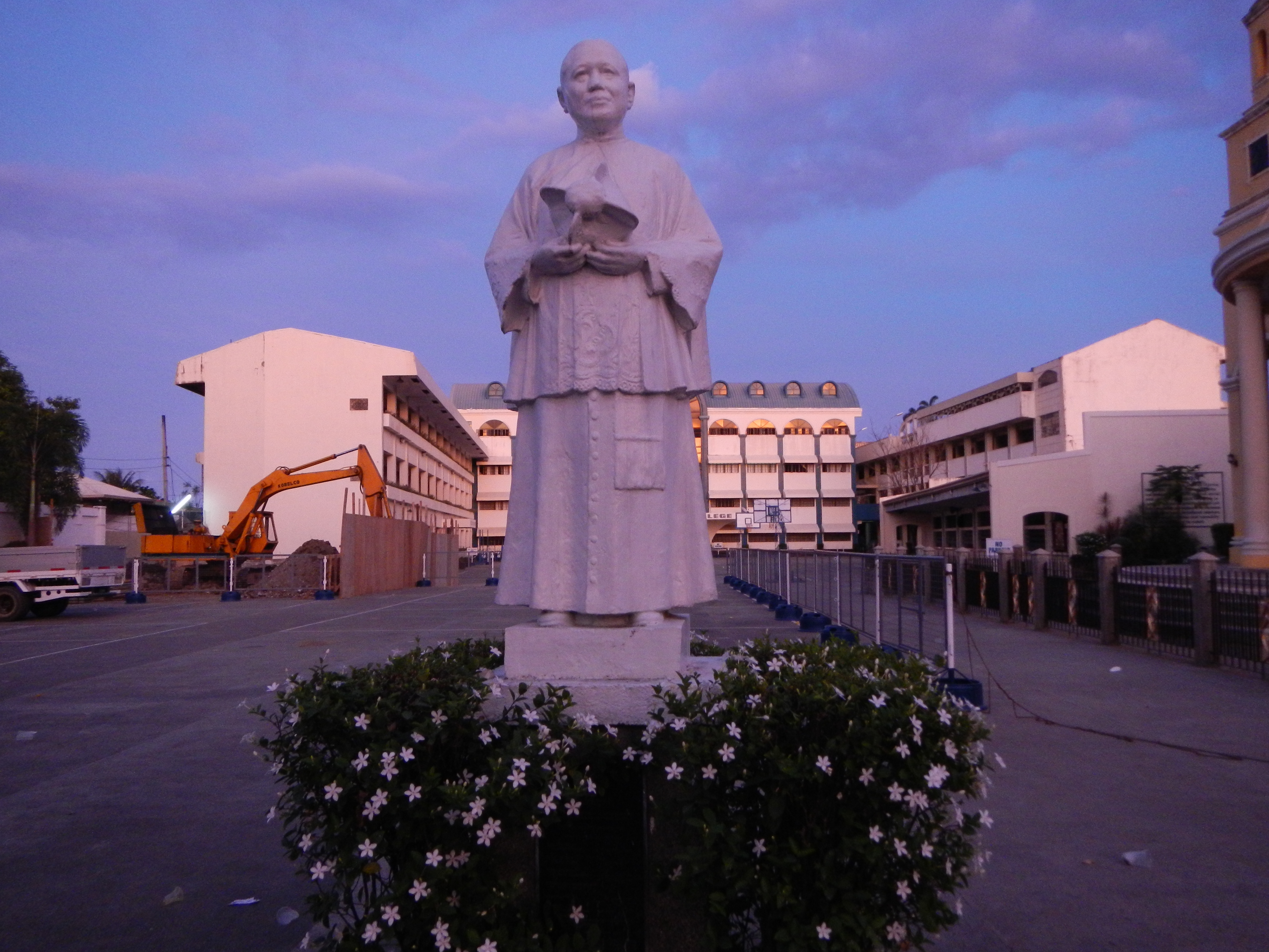 Santa Rosa, Nueva Ecija[1]